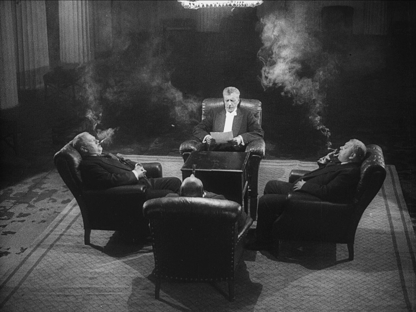 Still from Strike.